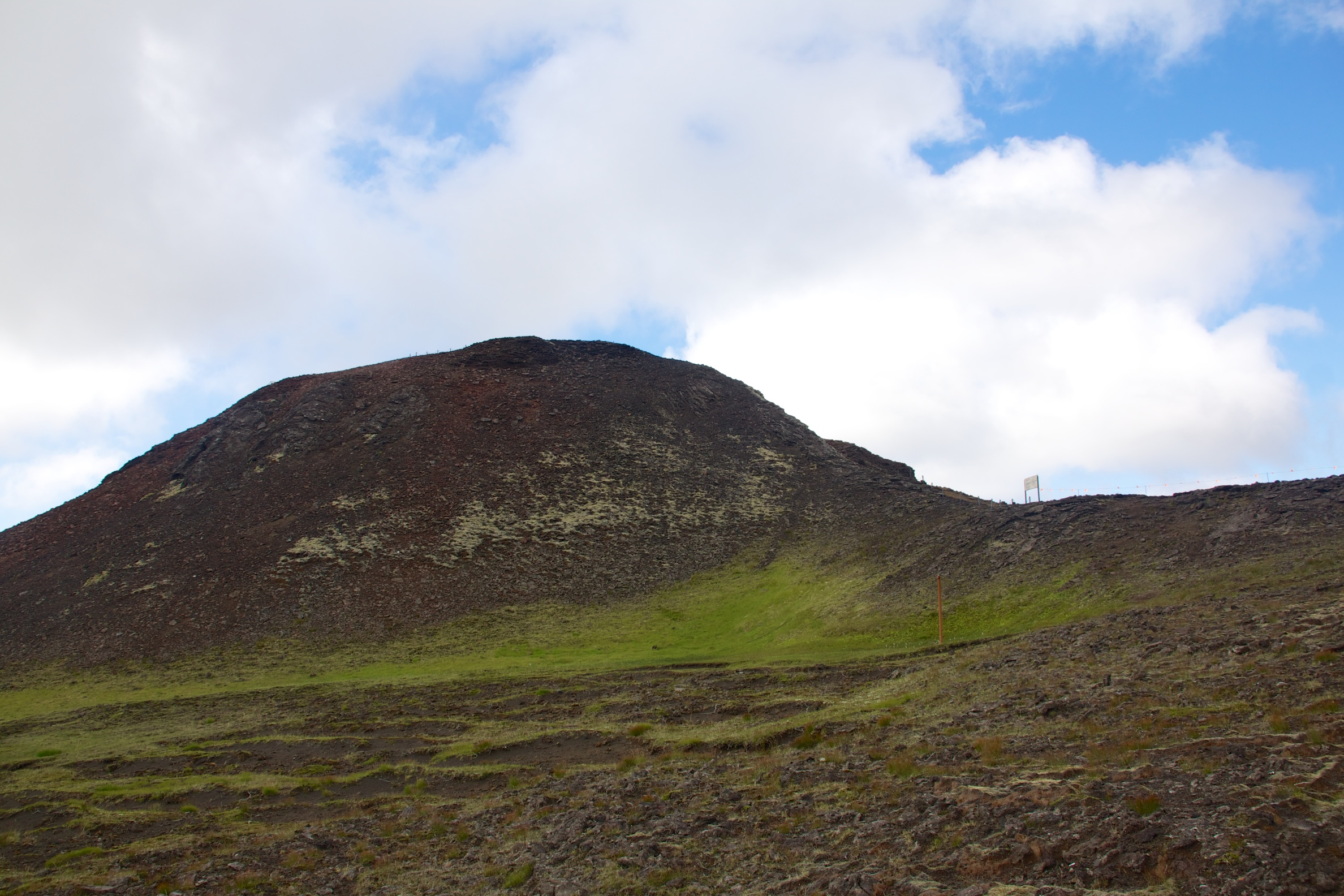 Crater of Þríhnúkagígur volcano in iceland.